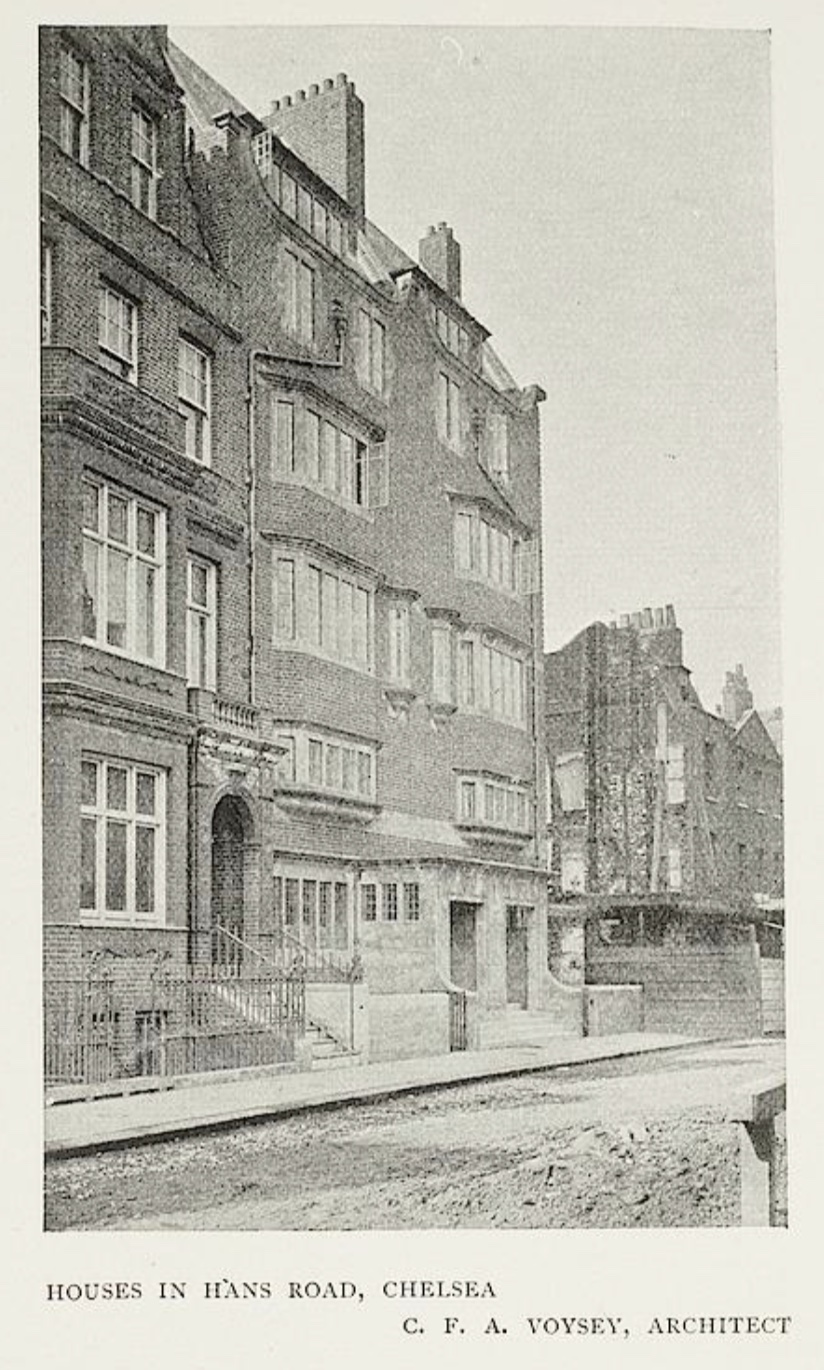 From The Studio, International Art Magazine. 1897